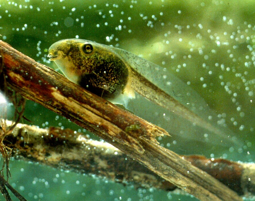 Tadpole of a tree frog